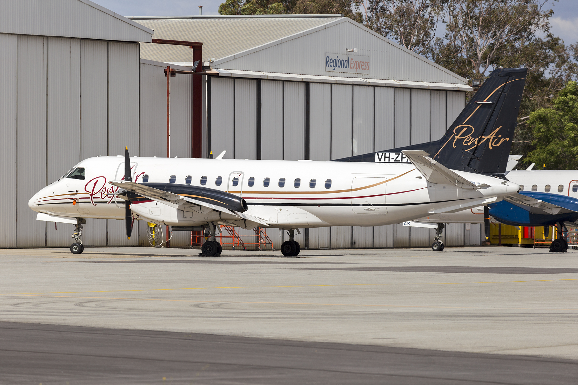 Regional Express (VH-ZPA) Saab 340, in former PenAir livery, at Wagga Wagga Airport